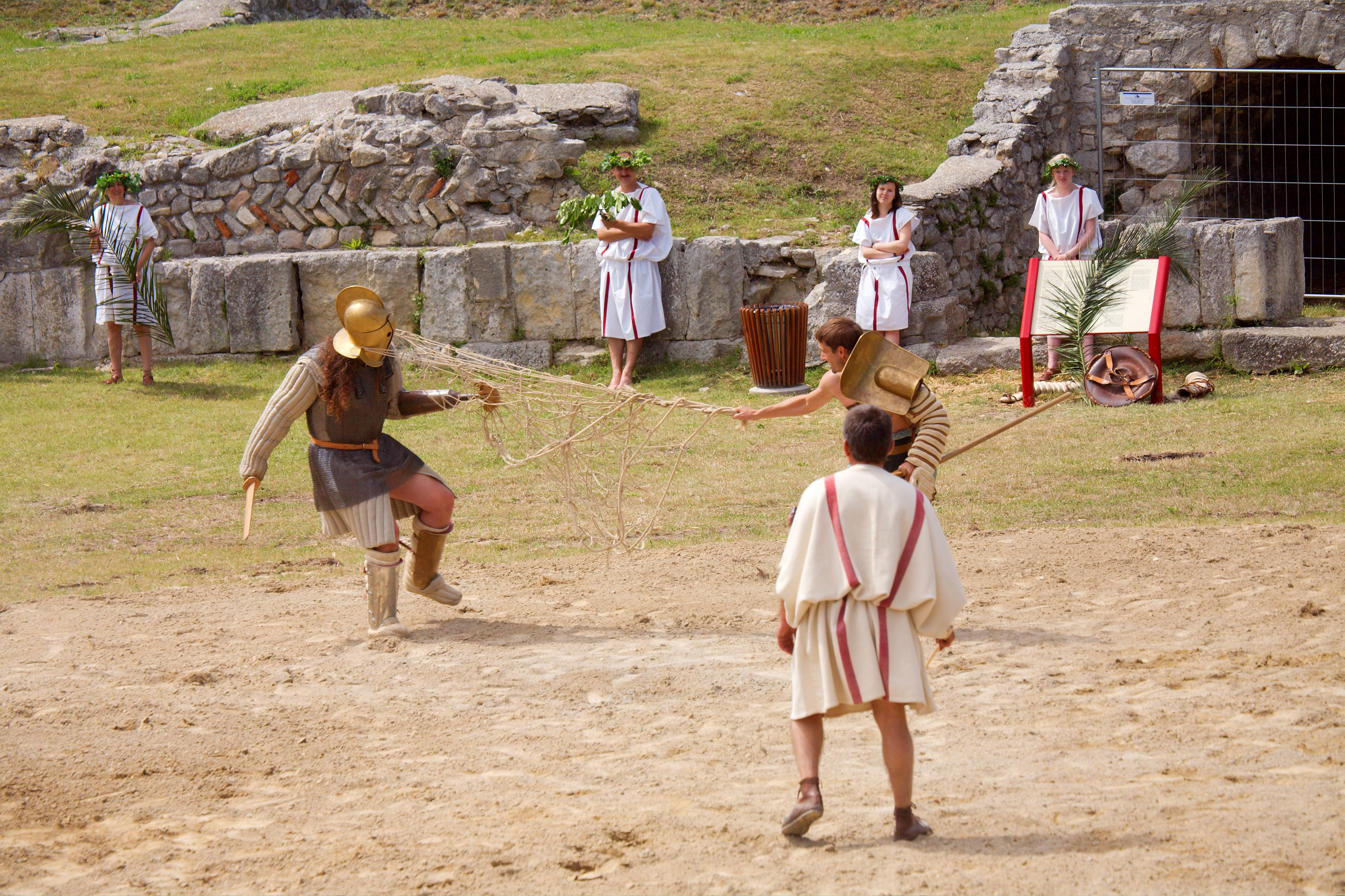 Show fight of the "familia gladiatoria pulli cornicinis" in Carnuntm, Austria.